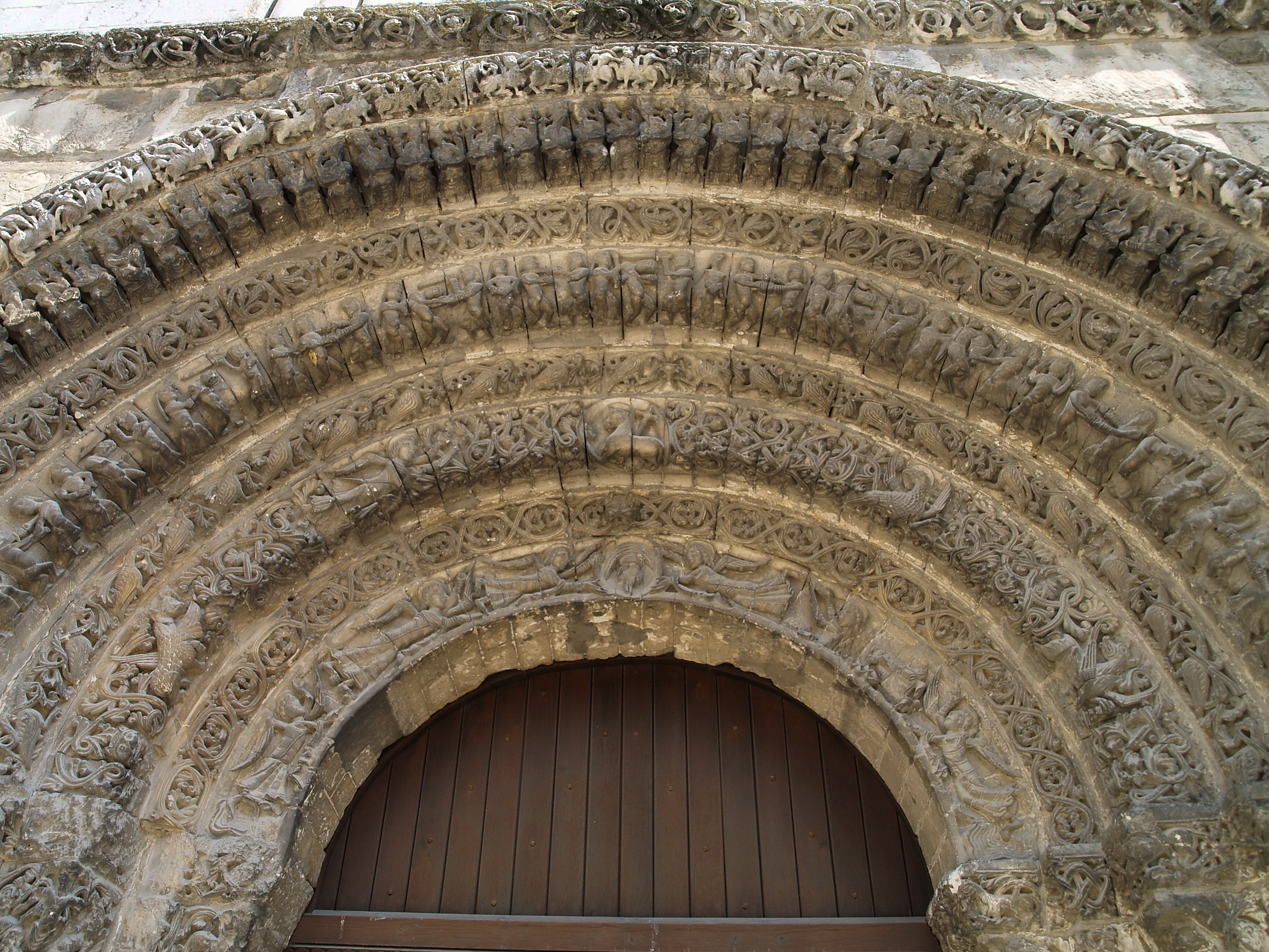 Sainte-Marie-des-Dames (Abbaye-aux-Dames), Saintes (Charente-Maritime, France) - Details of the central archivolted portal.